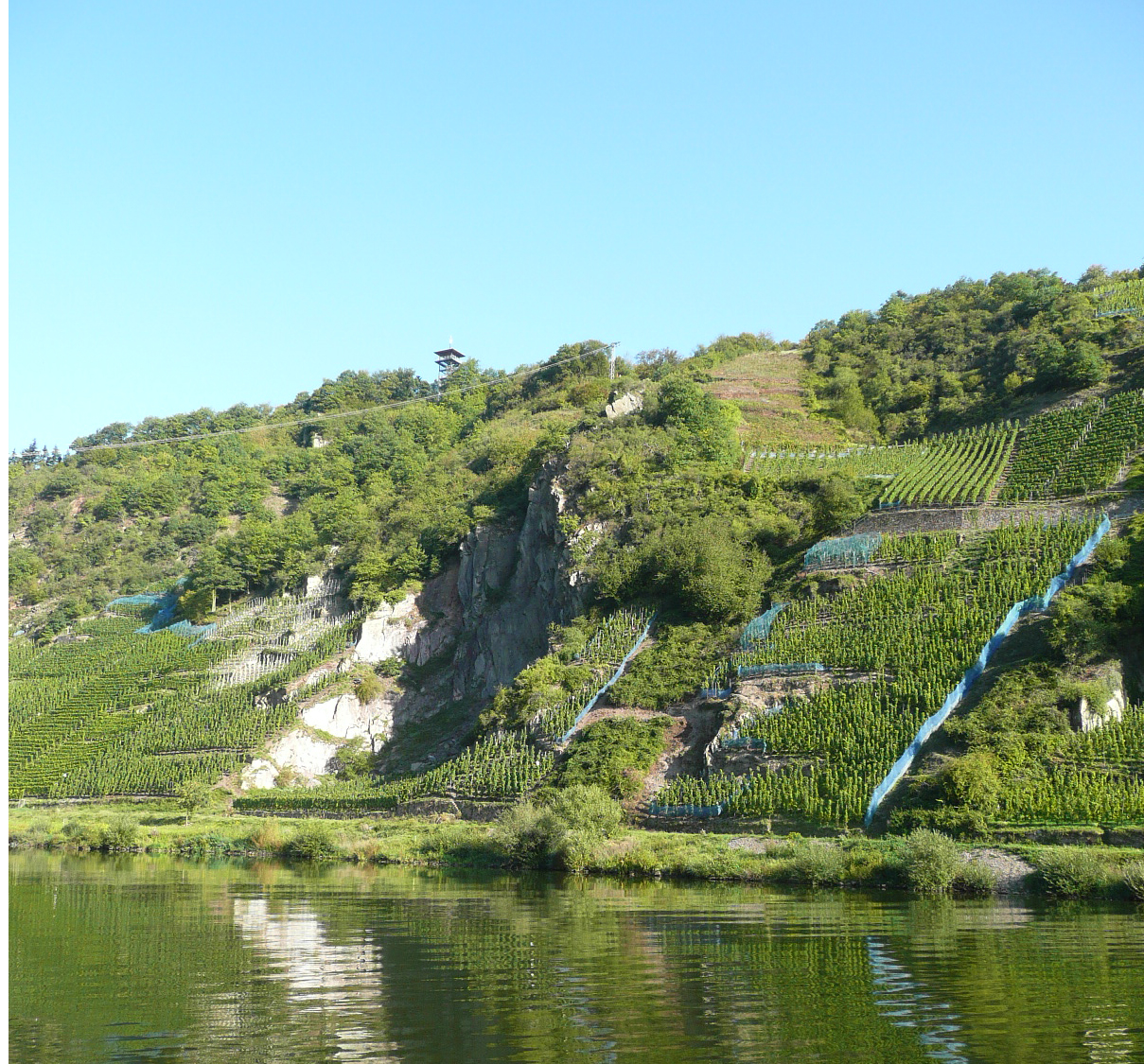 Vineyards at km 94, Moselle river, Pünderich, Rhineland-Palatinate.